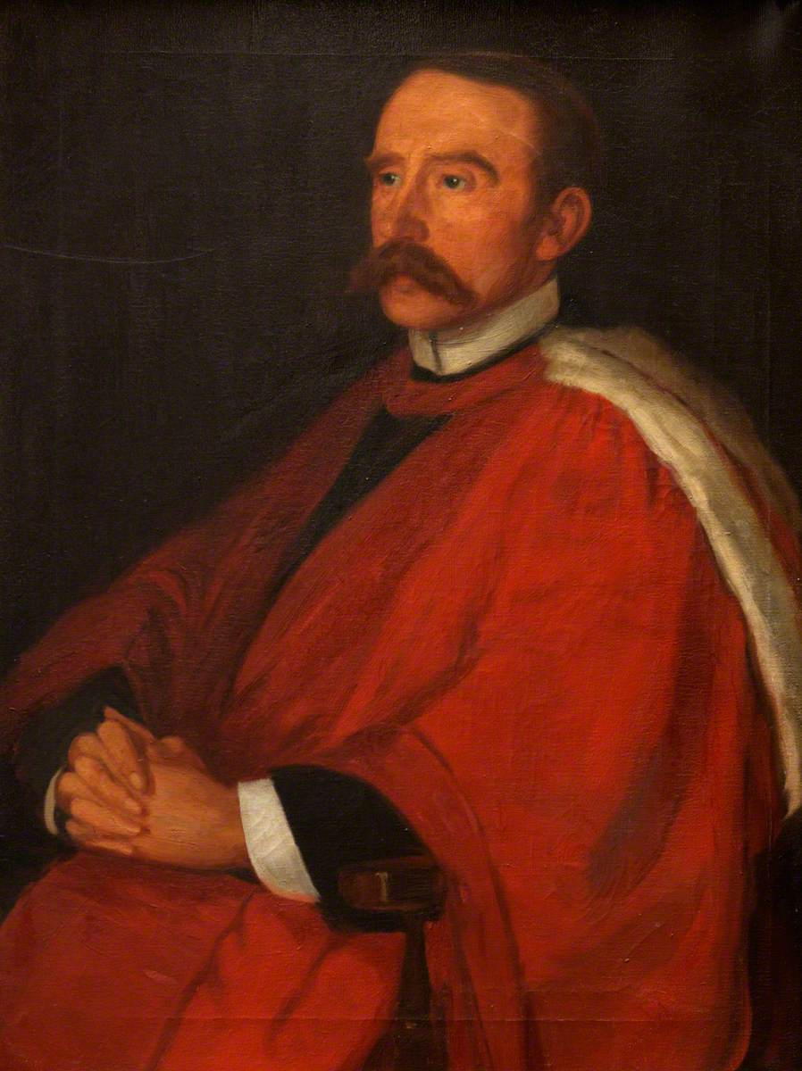 A painting from the Framed Works of Art collection at the National Library of wales.